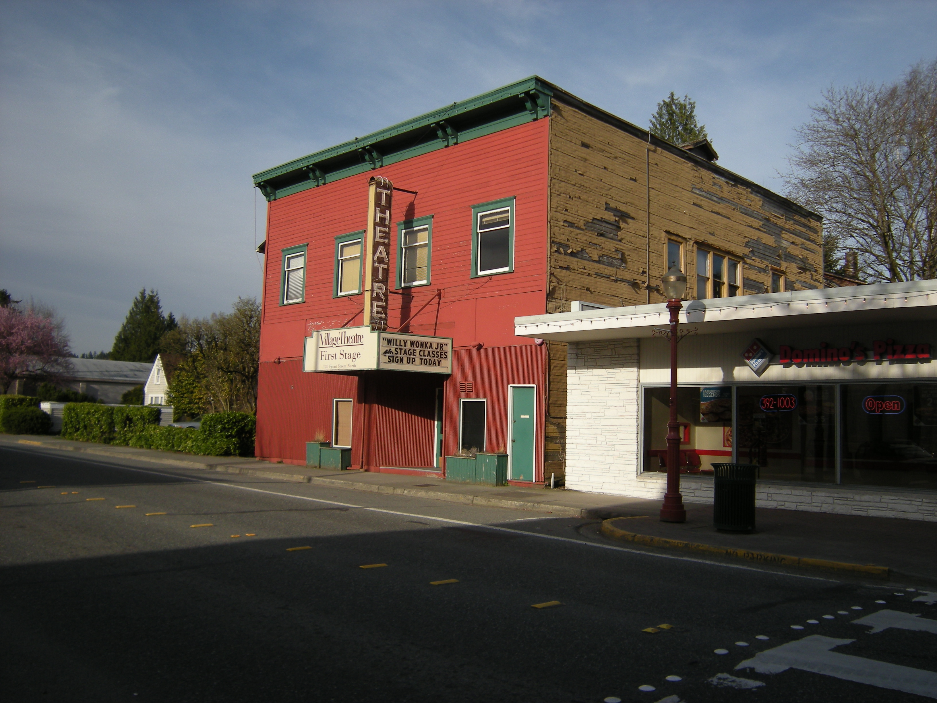 Village Theatre, Issaquah, Washington.